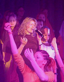 Ruthild Eicker